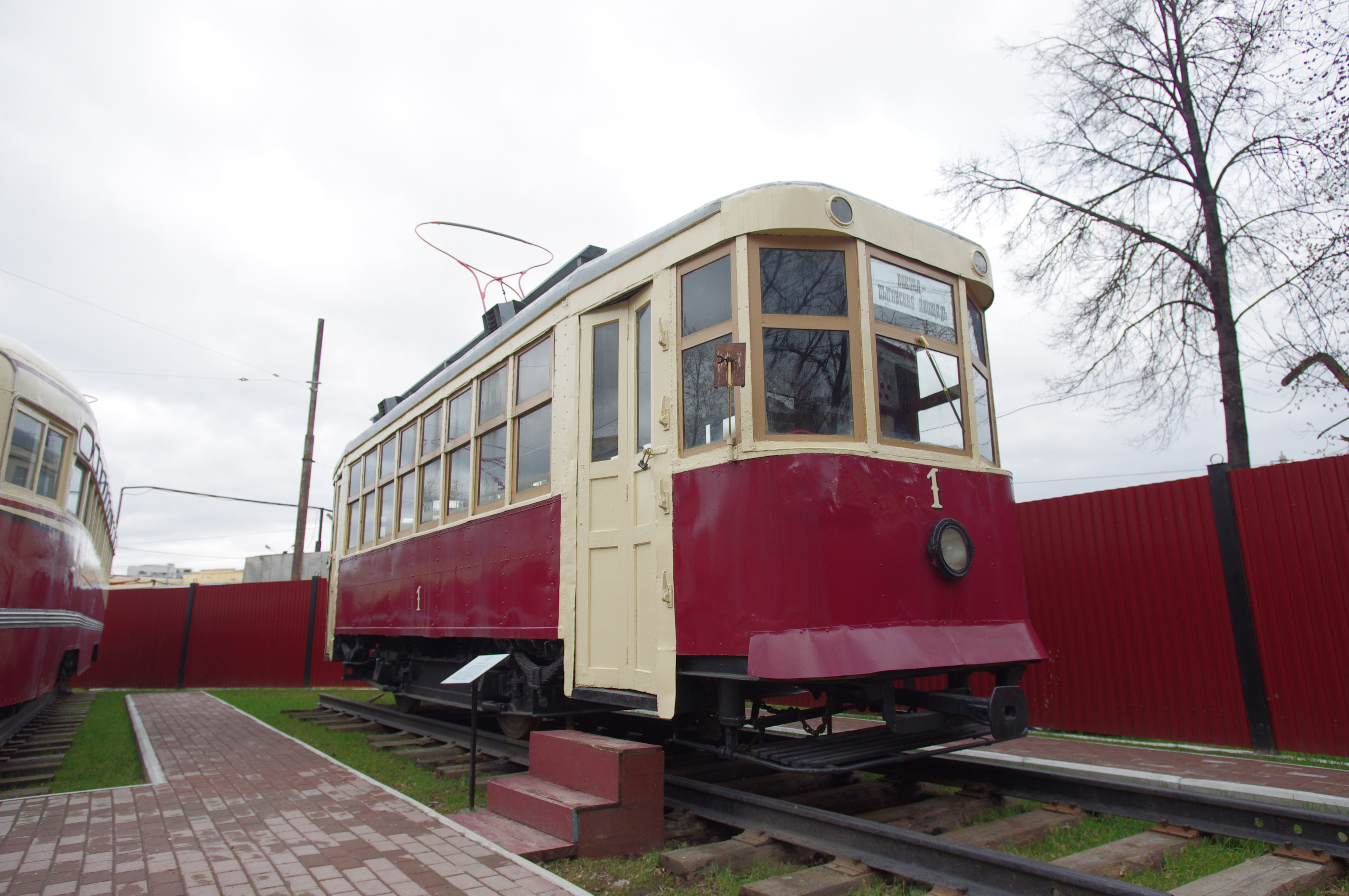 Architecture of Ekaterinburg, Russia.